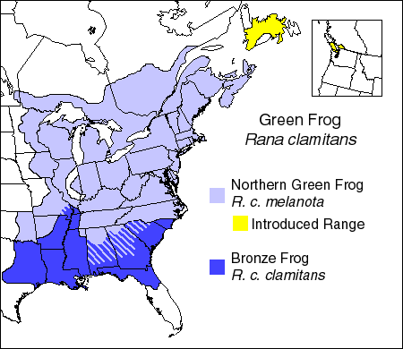 The North American habitat range of the Green Frog (Lithobates clamitans)